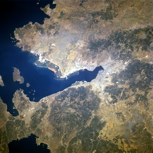 Izmir, Turkey - June 1996